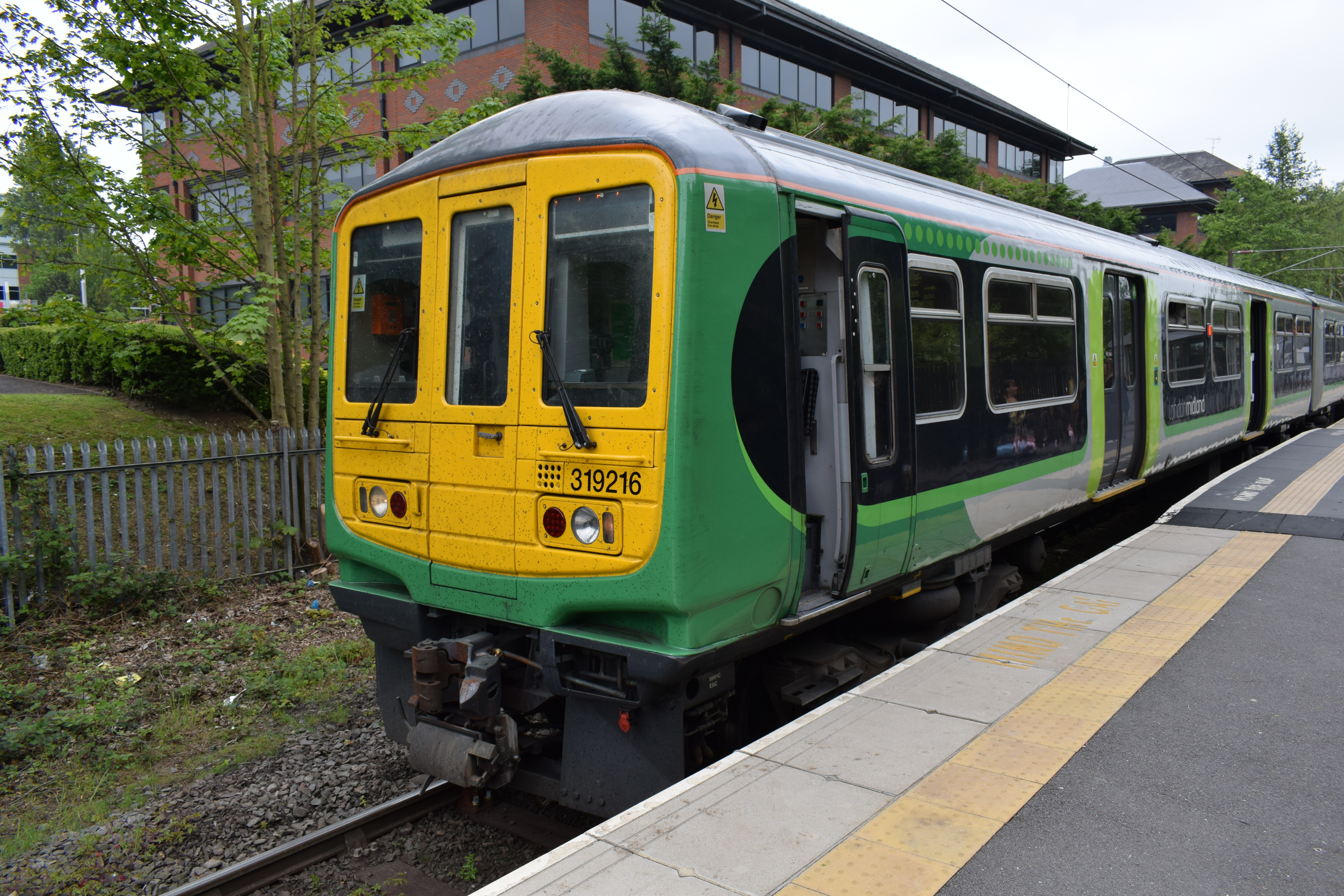 London Midland 319216 at St Albans Abbey with the 14:07 service to Watford Junction.